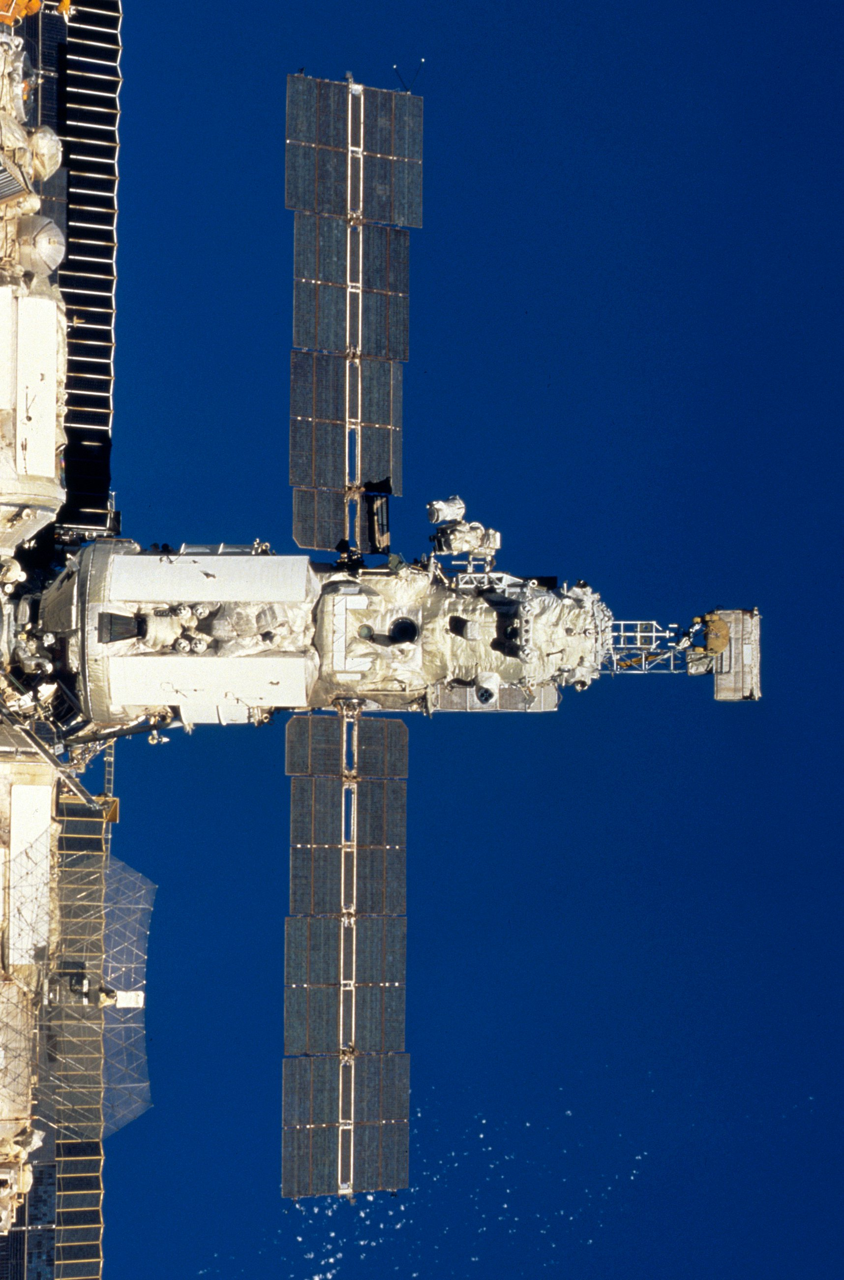 A survey of the Mir Space Station, viewed from the Orbiter Endeavour during STS-89 (DTO 1118).